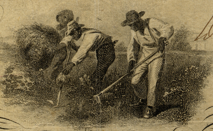 Slaves at work on a One Hundred Dollar Confederate States of America banknote. Issued during the American Civil War (1861–1865).